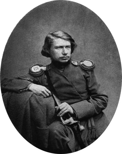 Potekhin Alexei Antipovich